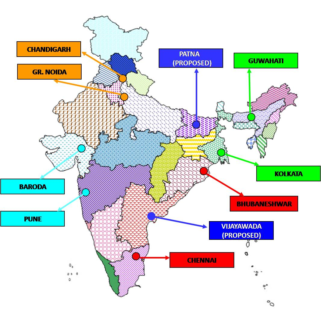 Locations of NDRF Bns